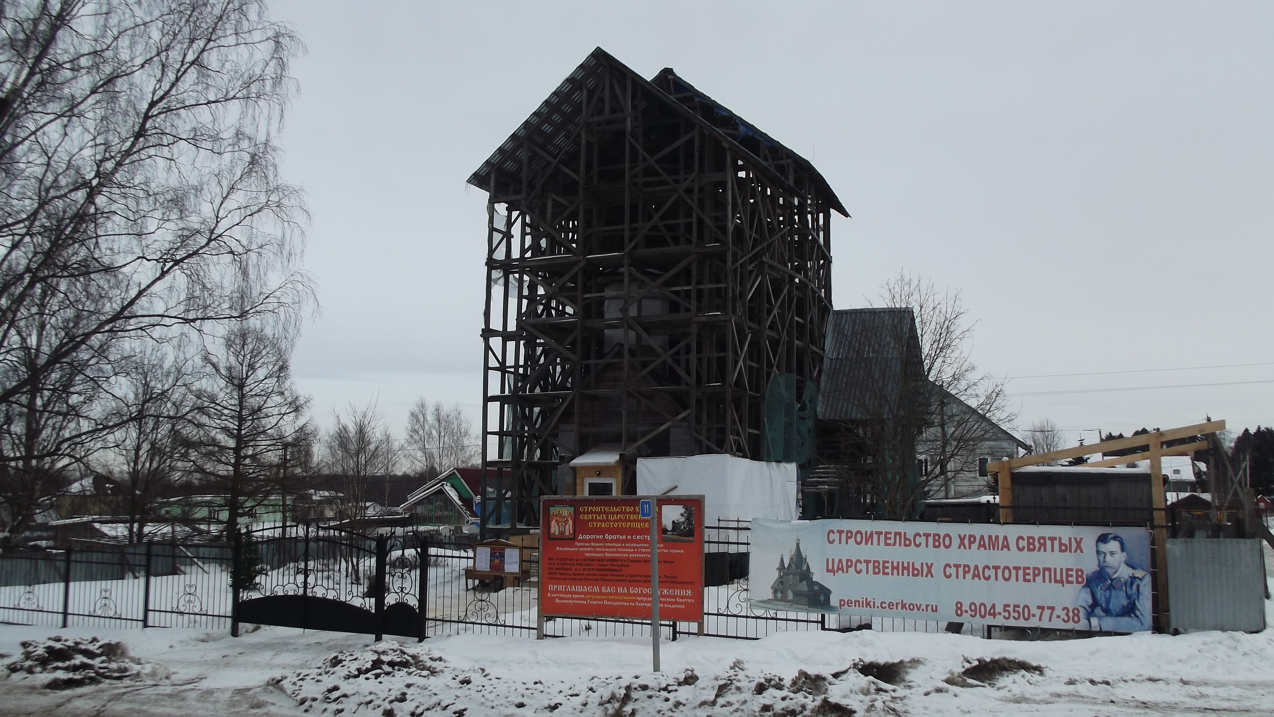 Peniki – Church Building – 2018. Winter.